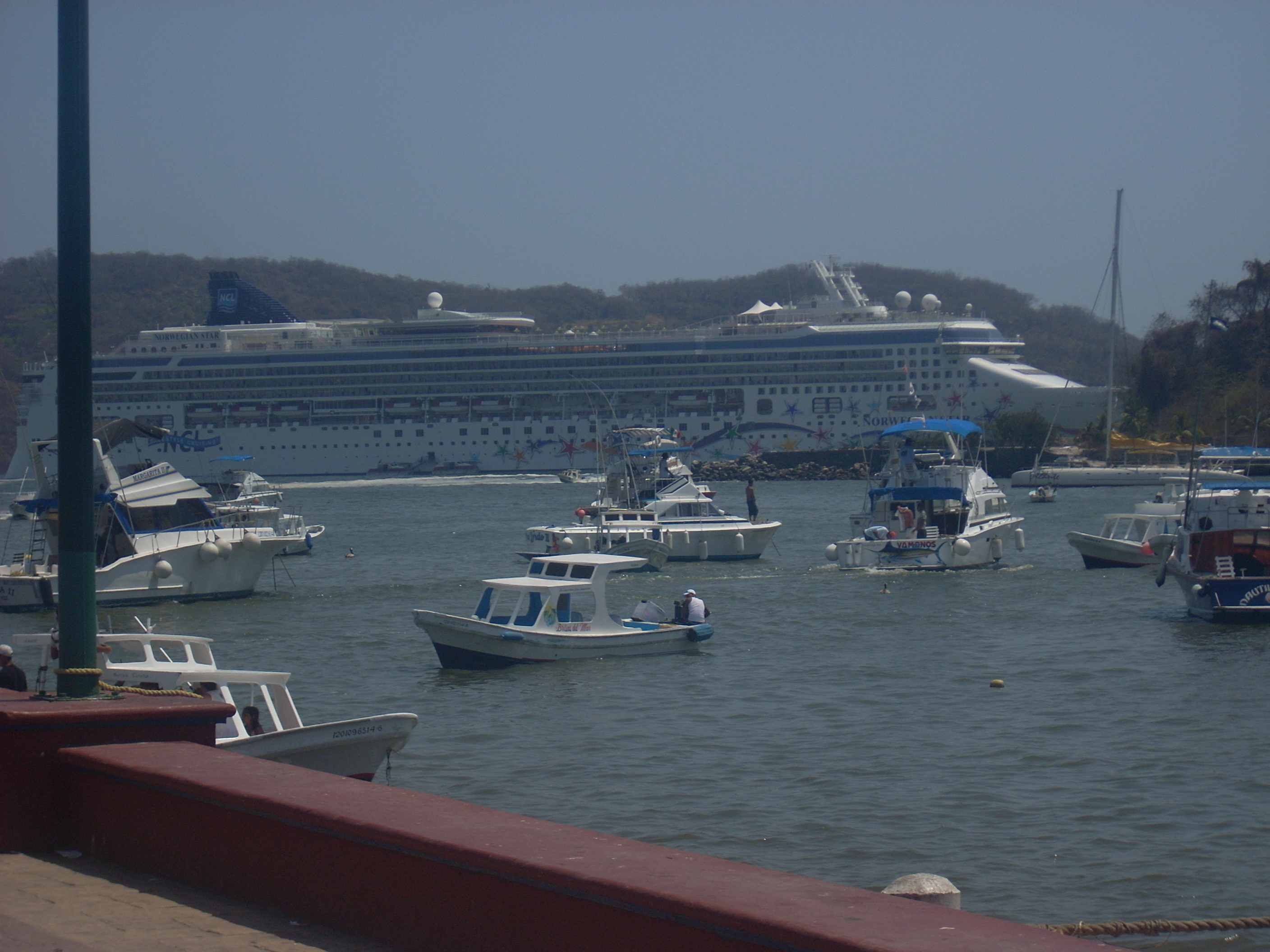 The Norwegian Star in Ixtapa Mexico